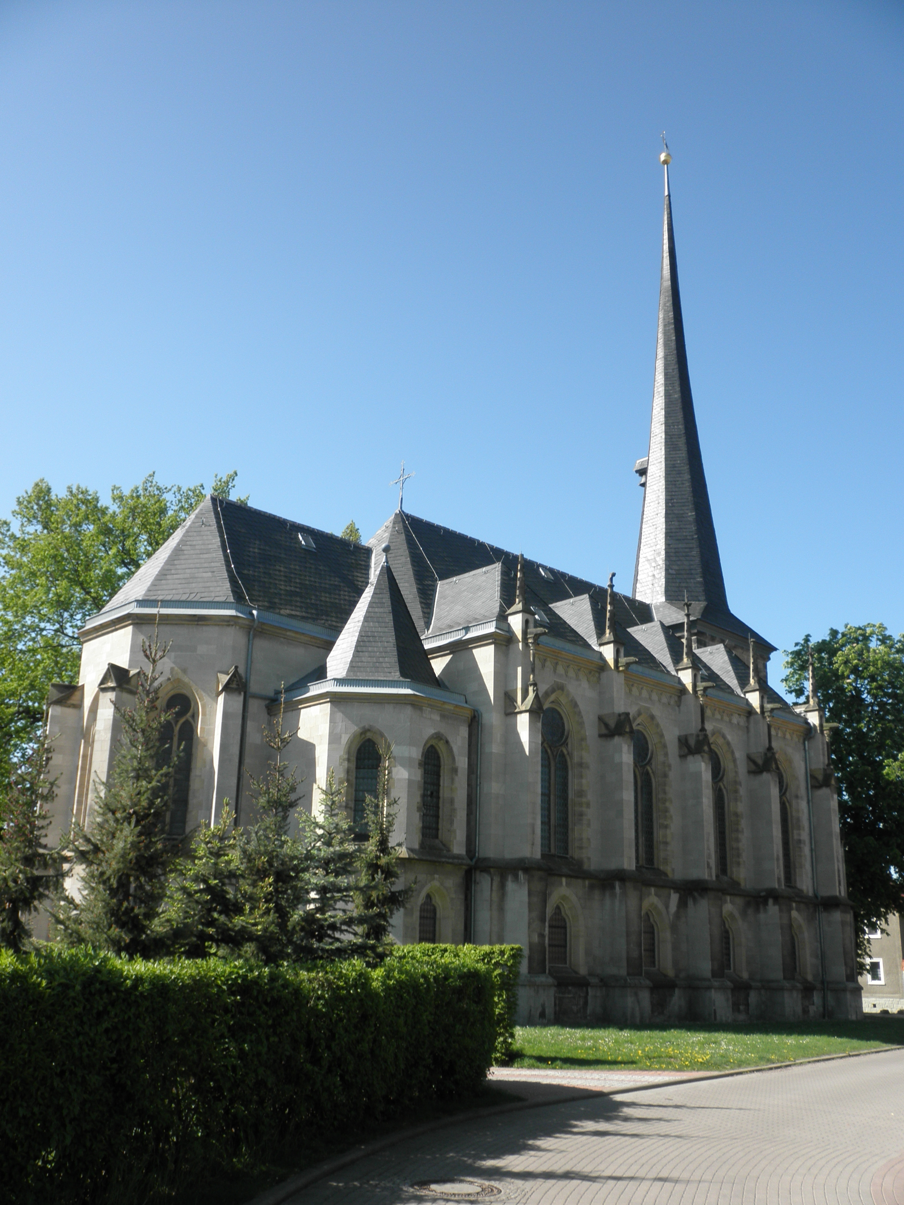 Protestantic Church in Vieselbach in Thuringia